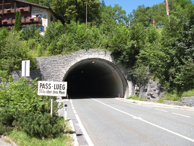 Pass Lueg: Summit sign (coming from south)